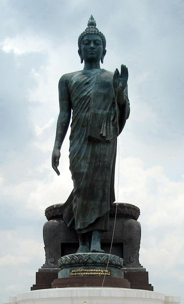 Buddha in Phutthamonthon Location: Buddhist park in the Phutthamonthon district, Nakhon Pathom Province of Thailand.